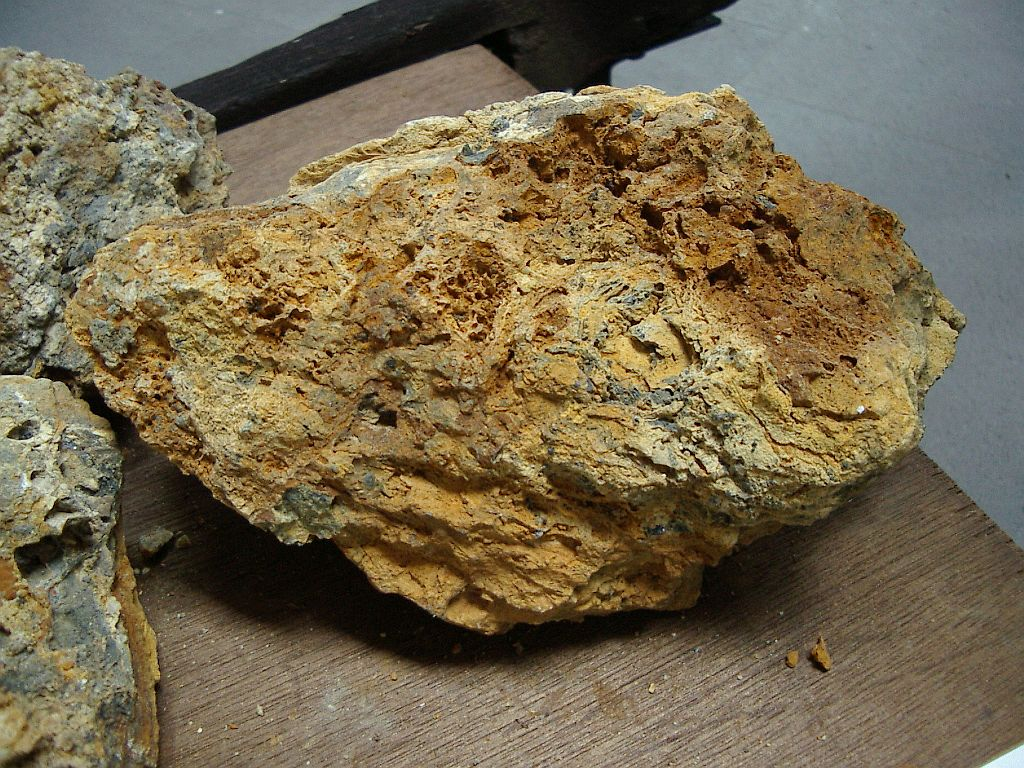 Calamine Quelle: erstellt am 22.04.2005 Fotograf oder Zeichner(in): Marie-Luise Carl